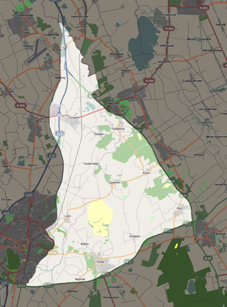 This map may be incomplete, and may contain errors. Don't rely solely on it for navigation.